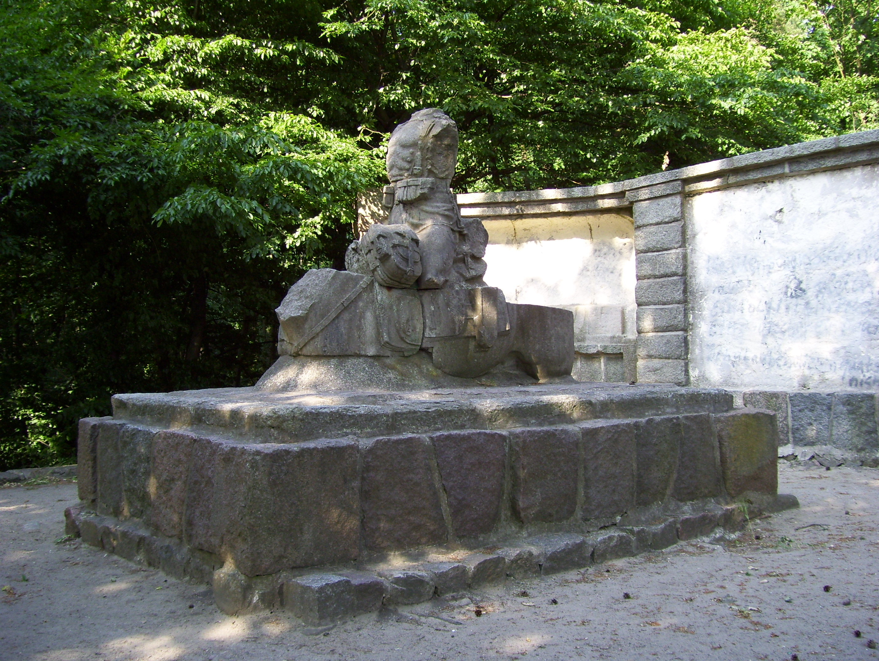 Memorial for the Ulans in Demmin